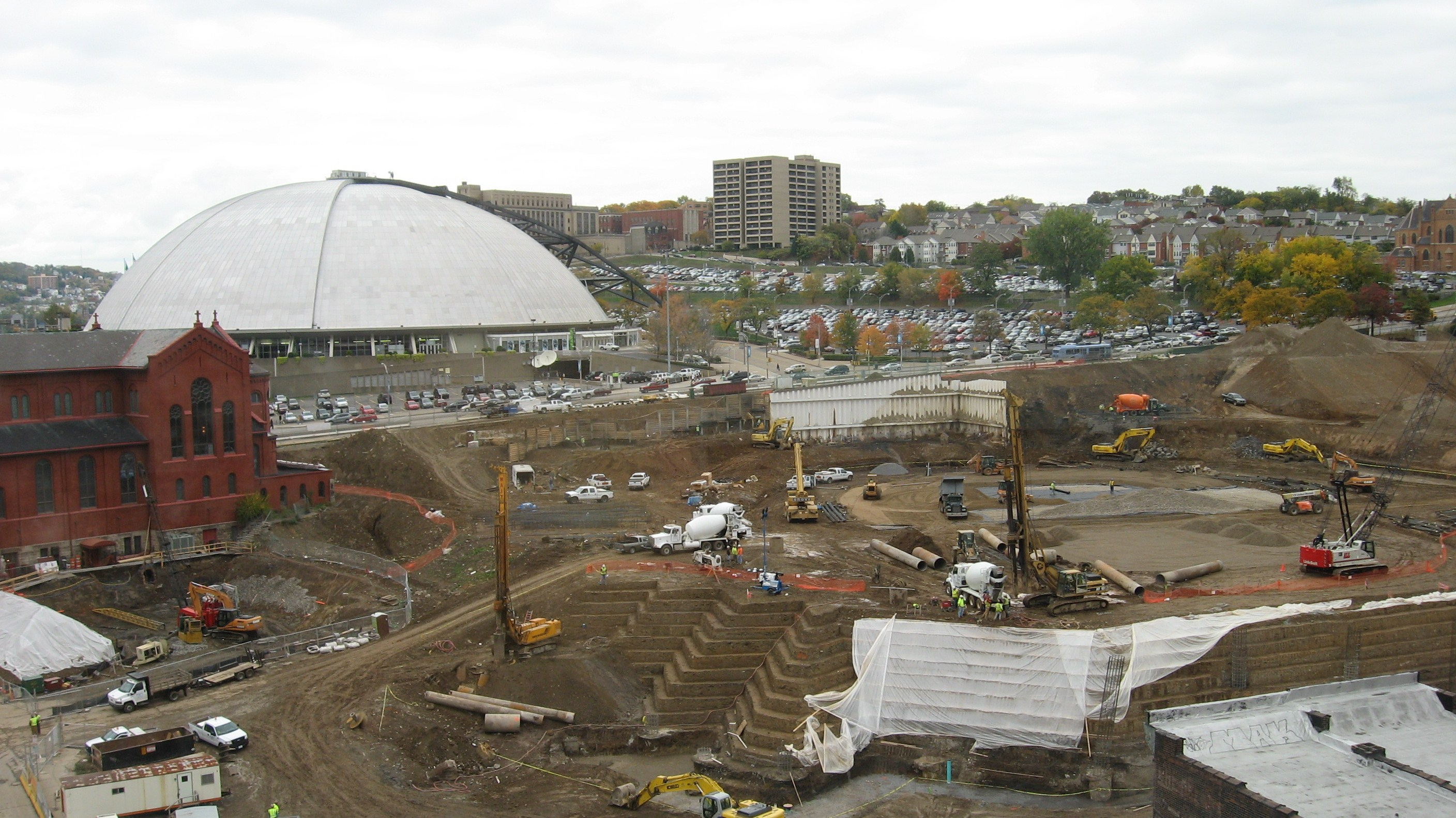 Construction on the Consol Energy Center on October 16, 2008. 40°26′26.8″N 79°59′22.8″W / 40.440778°N 79.989667°W